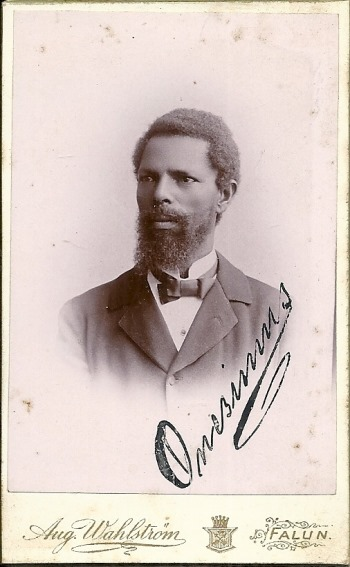 A portrait of a man and the photo has the name "Onesimus" handwritten on the front. The photographers name is Aug. Wahlström from Falun, Sweden